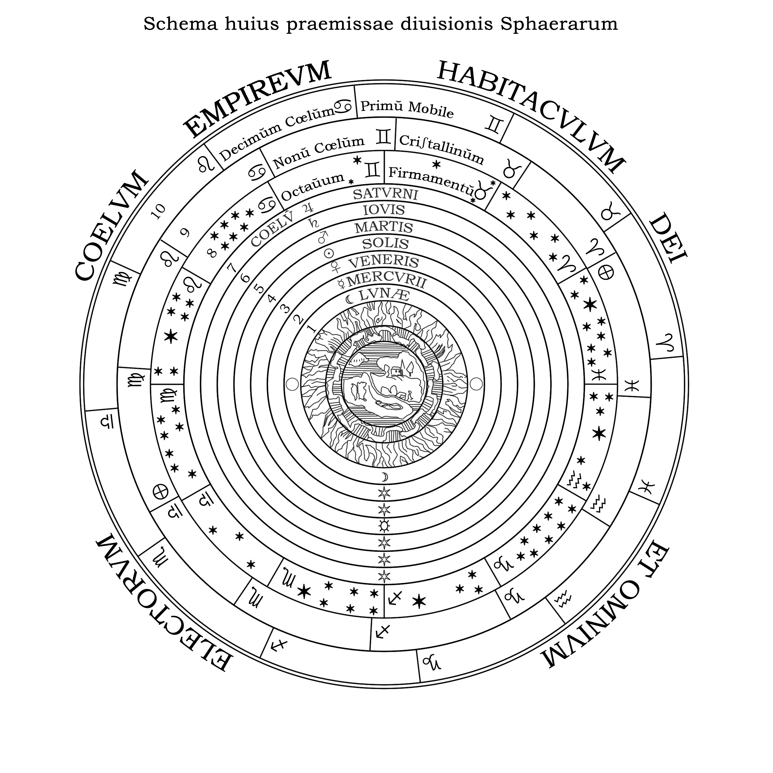 A digital reproduction of Peter Apian's diagram of the celestial orbs from his 1539 work Cosmographia. There have been minor changes to text alignment and the position of stars within their respective spheres; however, the positional relationship between the various spheres has been maintained. A description of the contents, as copied from the Wikimedia description of the original image